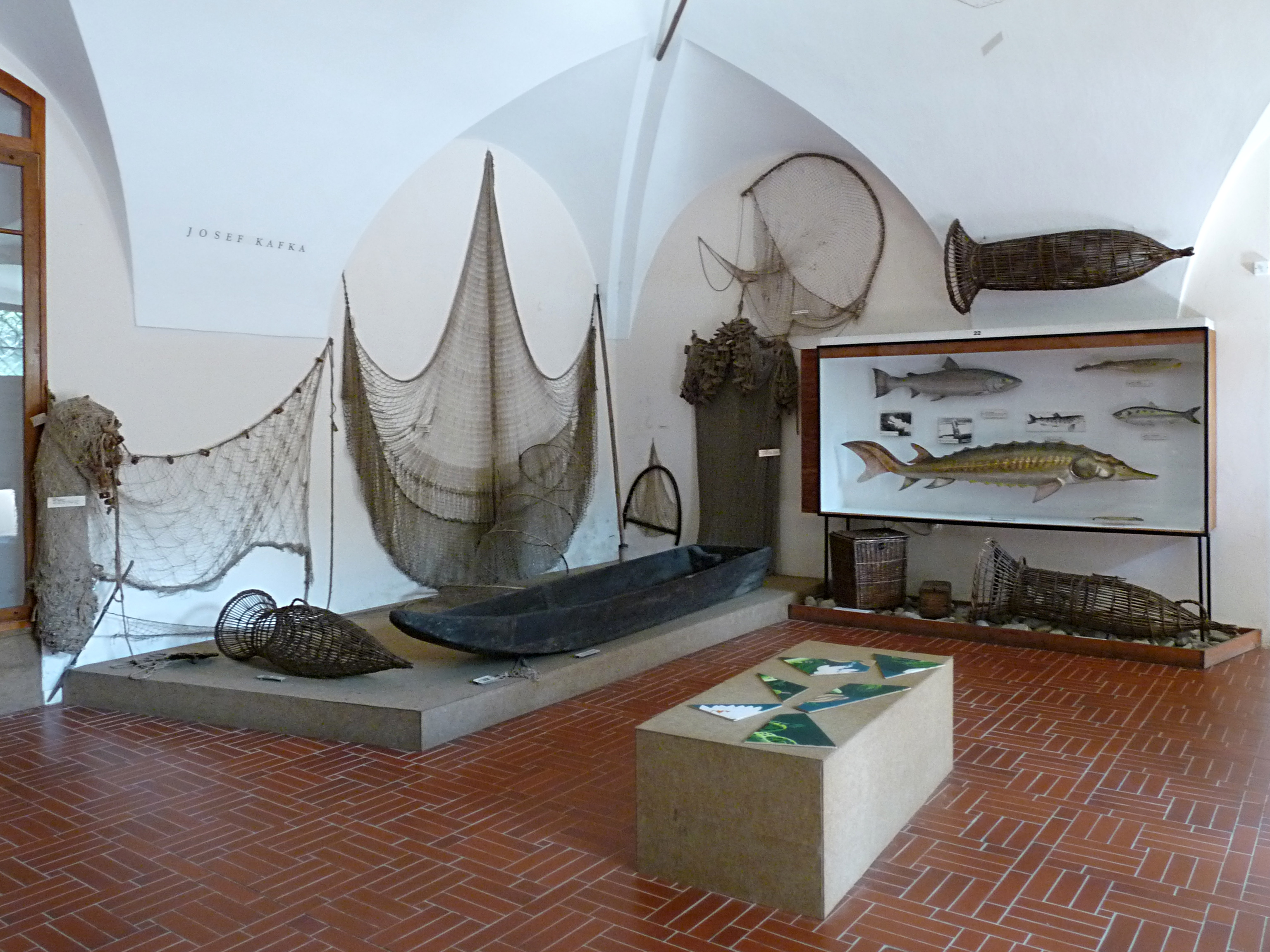 Fishing exhibition at Hunting Lodge Ohrada near Hluboká nad Vltavou, Czech Republic